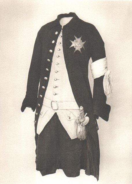 King Gustavus III's uniform at coup d'état of 1772. During the coup d'état, the white brassard was worn by supporters of the king.